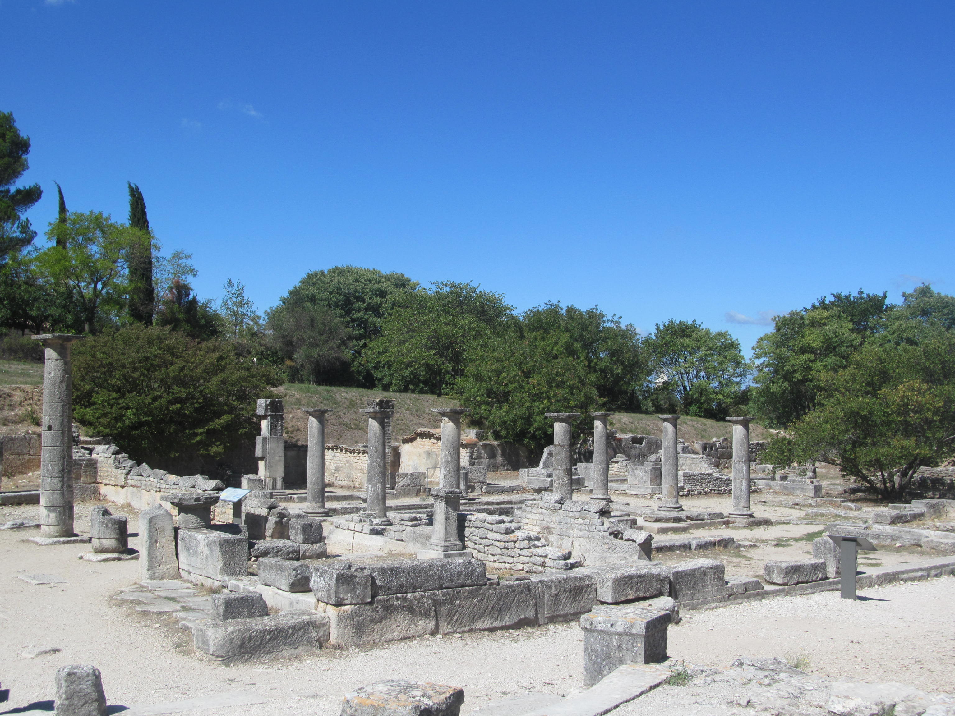 Glanum_the House of the Antae